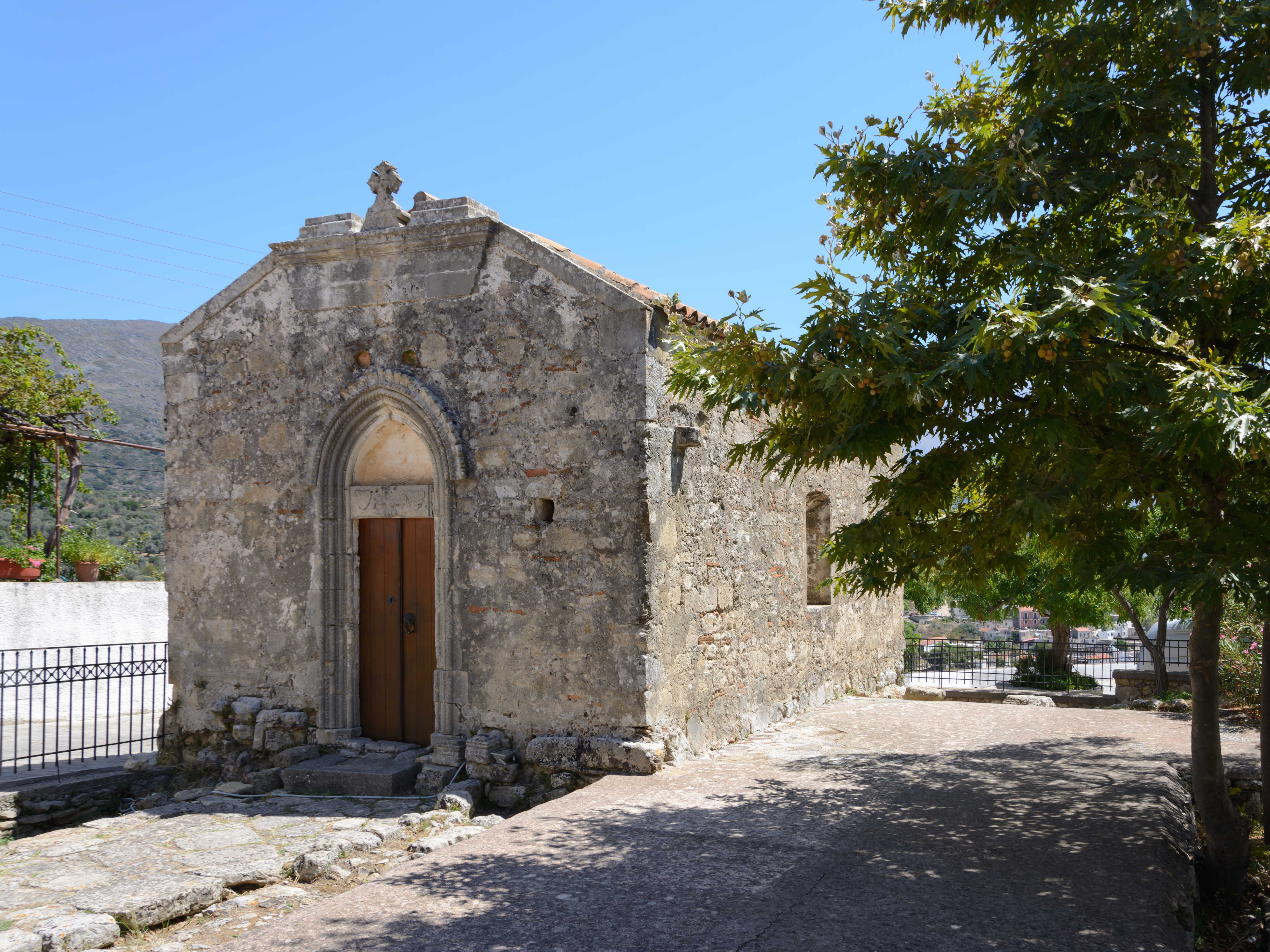 Naos Panagias (Ναός Παναγίας, Church of the All Holy) at Thronos, Amari Valley, Crete